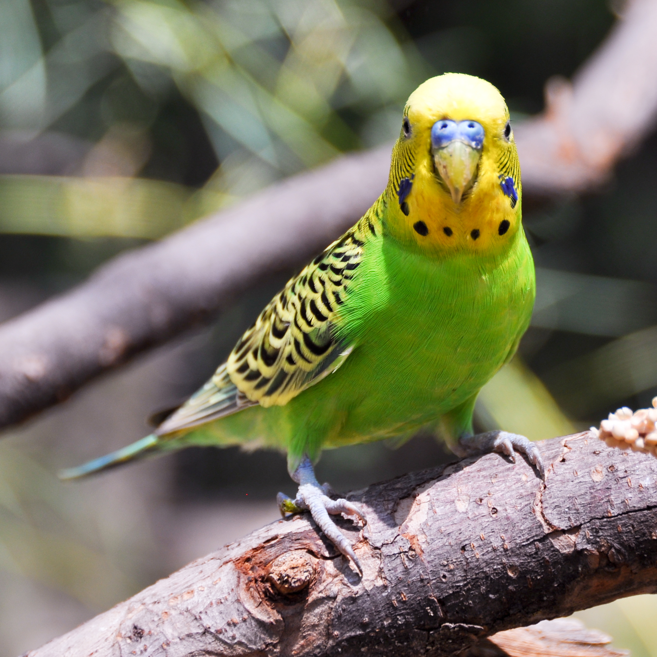 Budgerigar at Fort Worth Zoo, Texas, USA.